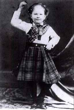 Frances Sylvester (?-1949). She may have travelled with her adoptive father, the Middlebush Giant, in Europe and she was said to have danced for Queen Victoria.